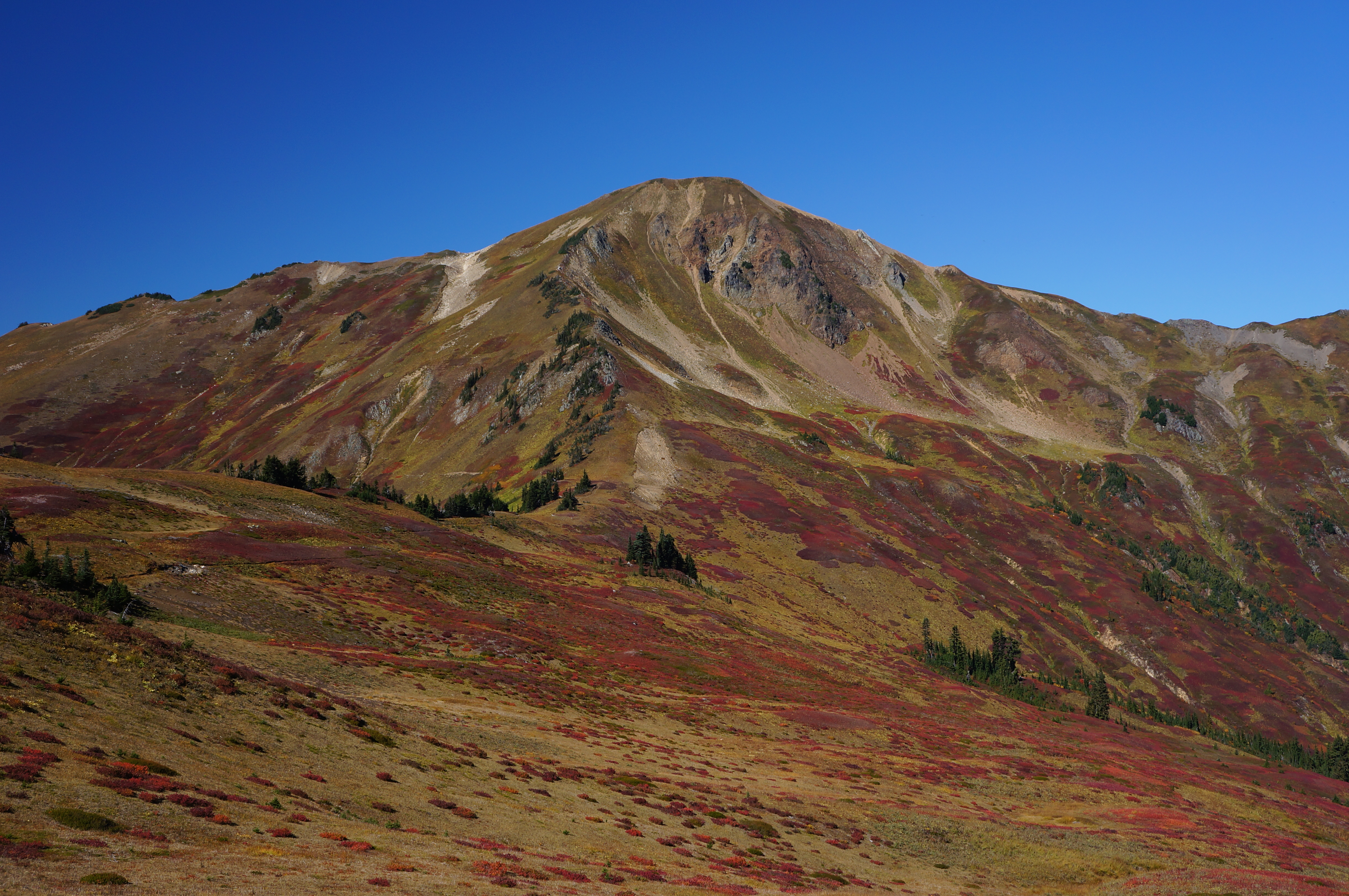 White Mountain, Glacier Peak Wilderness